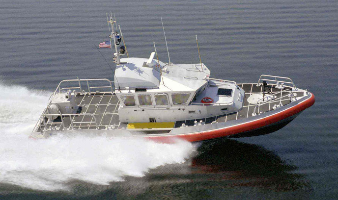 A picture of the USCG Response Boat Medium (RBM) which will replace a fleet of 41-foot utility boats (UTBs) that average over 30-years of service.